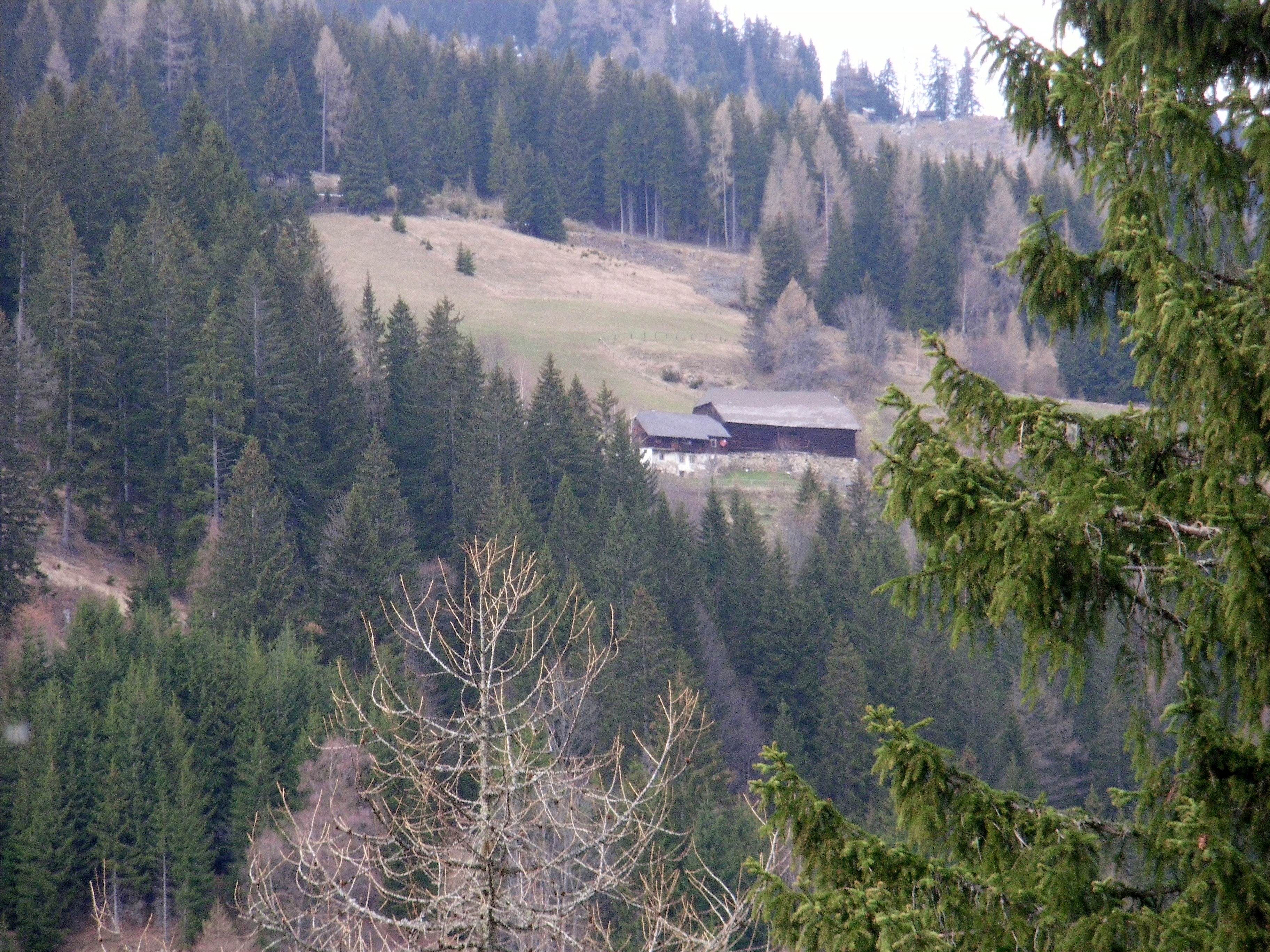 Farm Bretstein Ravine